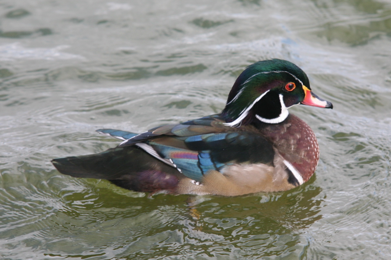 A male adult Wood Duck swimming on calm waters in Northwest Rectangle, Washington, District of Columbia